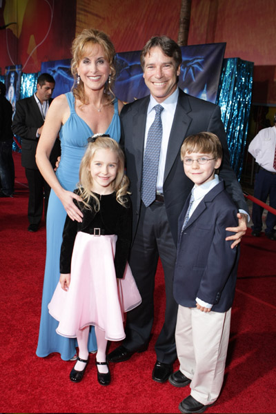 Voice actor Jodi Benson and family